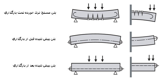 پیش تنیدگی